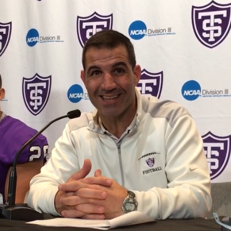 Gary Fasching, head coach of the Saint John's Johnnies football team, at a press conference following a 2019 Tommie-Johnnie Game in Allianz Field in St. Paul.